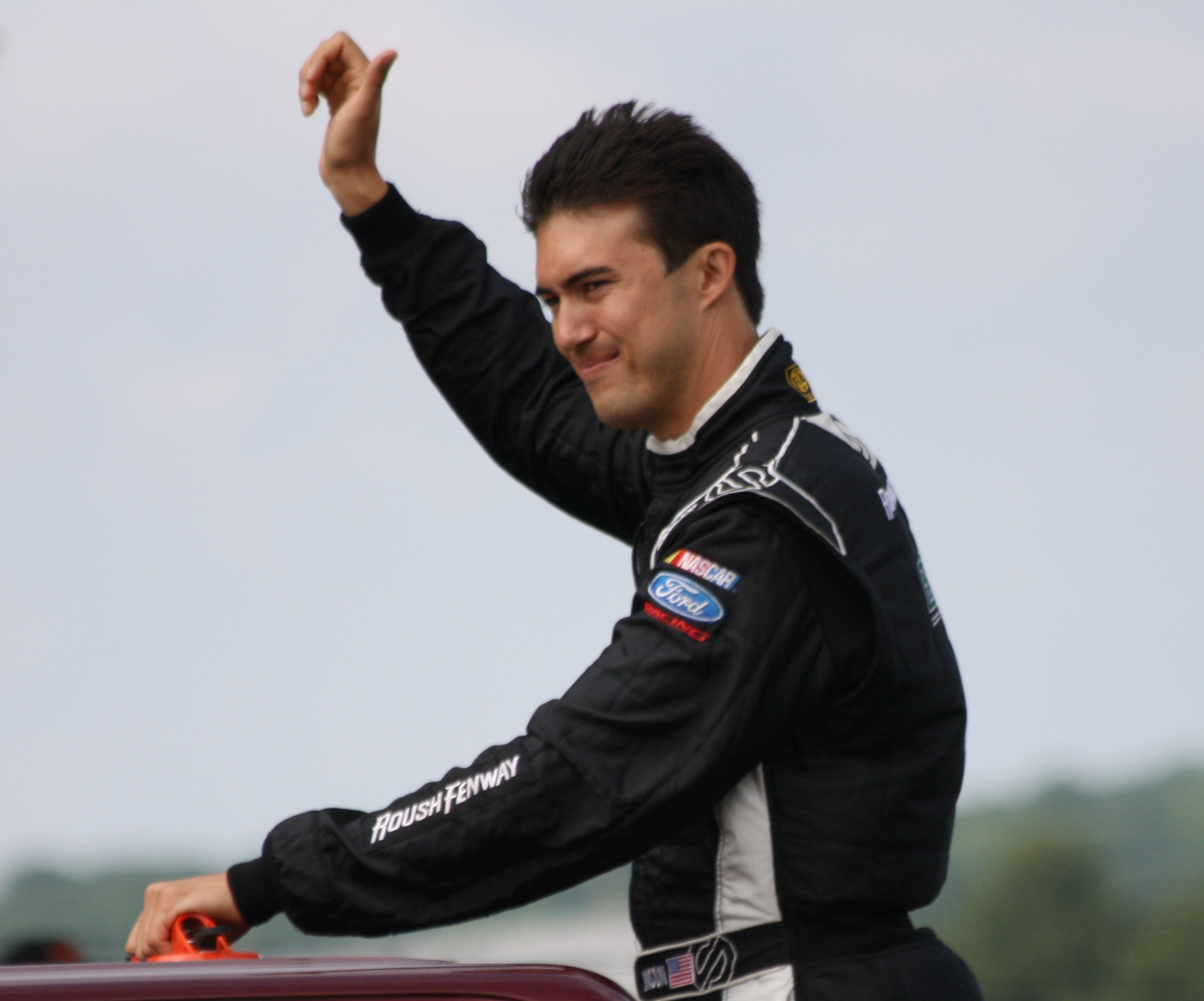 NASCAR driver Billy Johnson at the 2013 Johnsonville Sausage 200 Nationwide race at Road America.